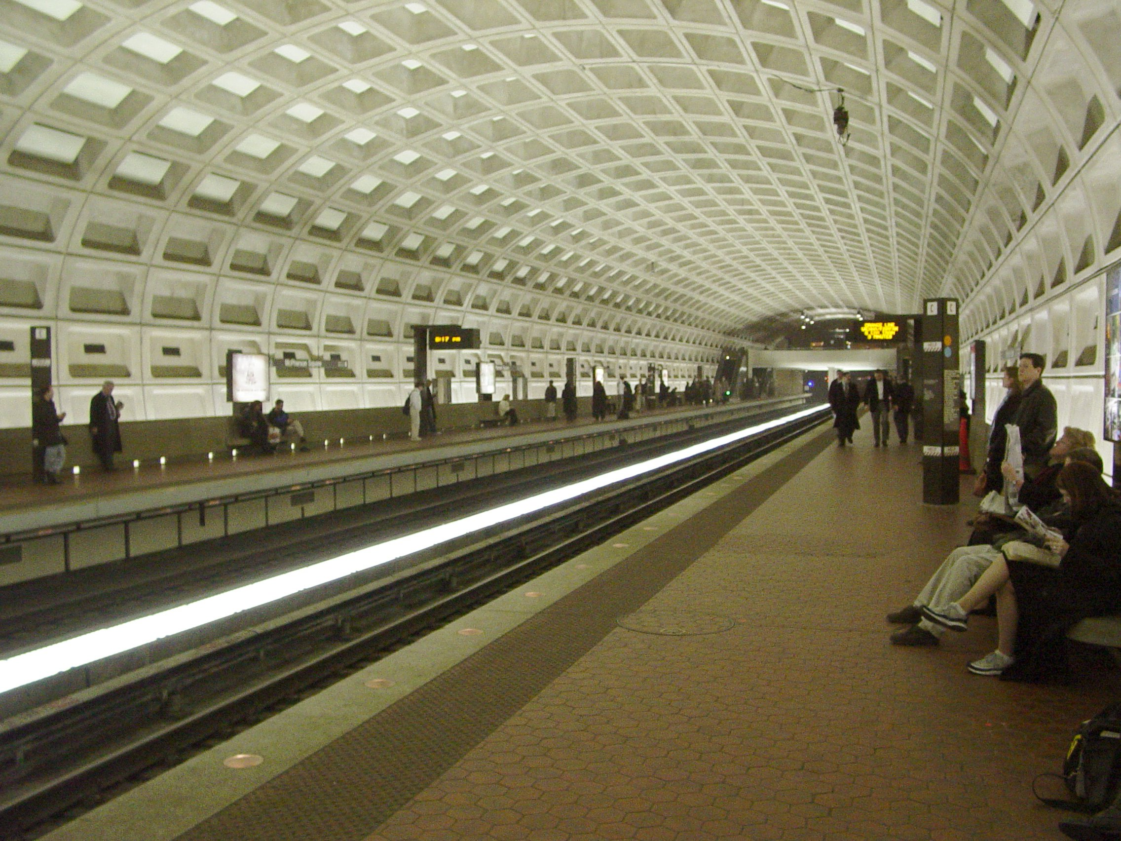 McPherson Square station.